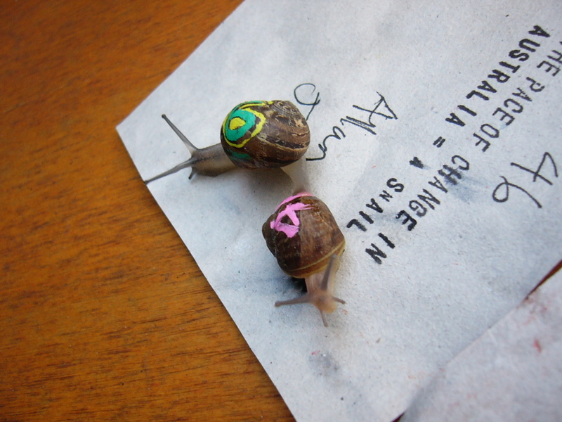 An image of a snail race